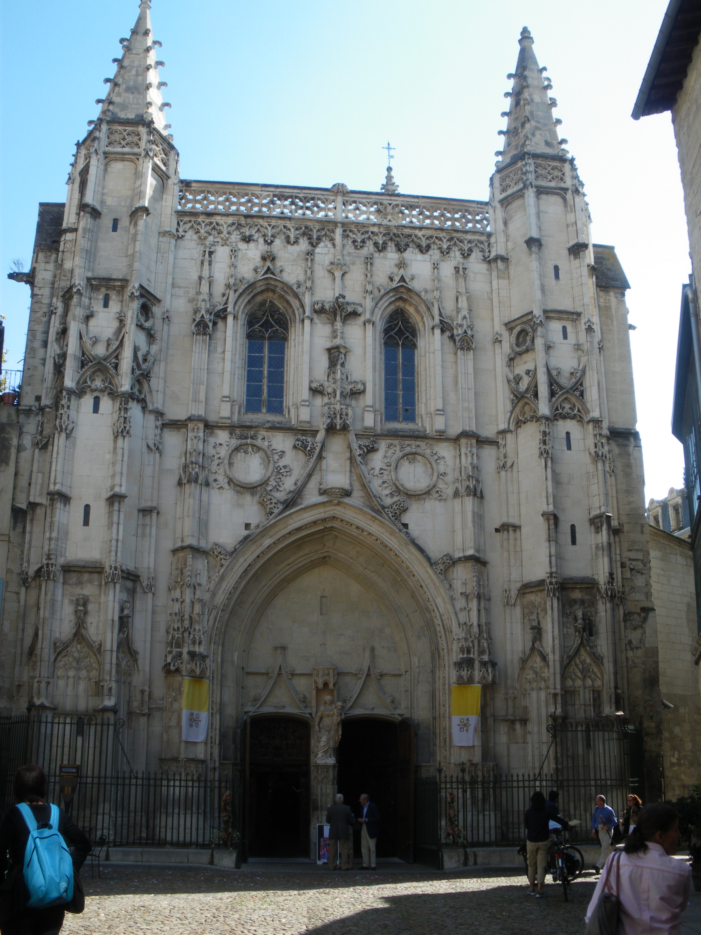 Saint Pierre Church, Avignon, France